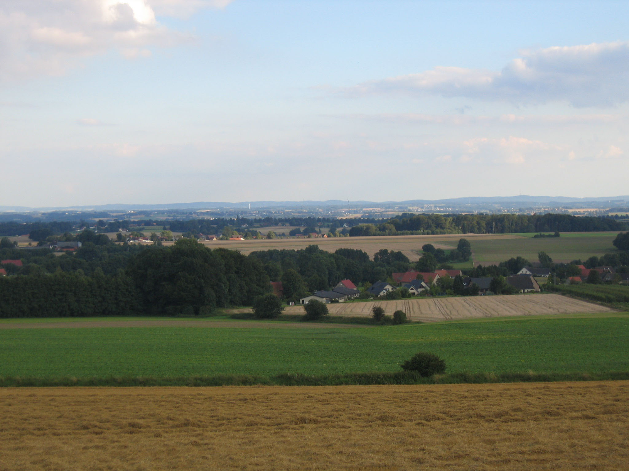 Picture shows the view from the southern slope of Wiehengebirge near the town of Rödinghausen, Germany, over Ravensberger Land to the Teutoburg Forest